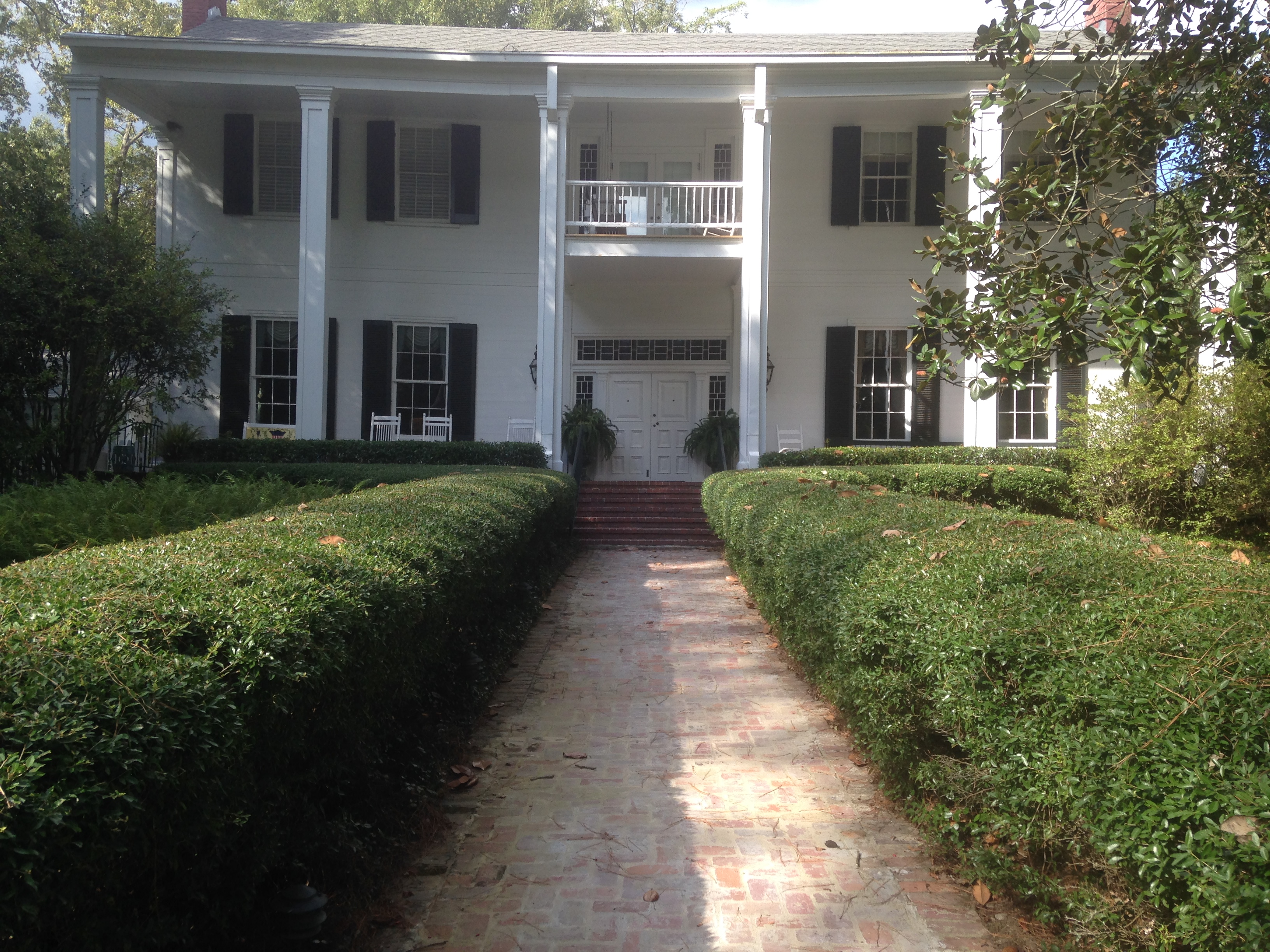 Sub Rosa